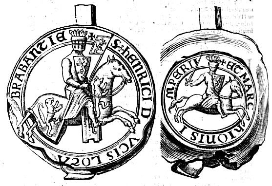 Henry III of Brabant